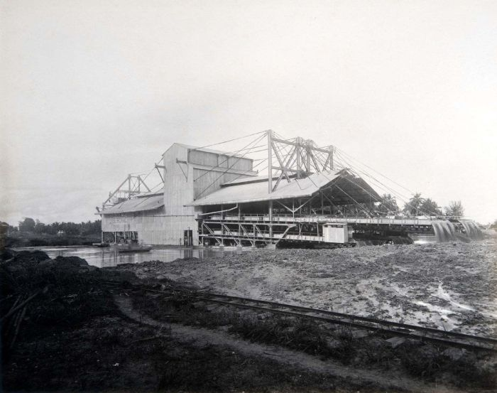 The 'Sergang' tin dredge of the Singkep Tin Company